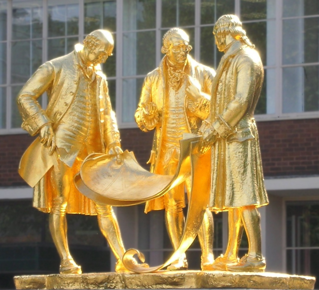 Newly re-gilded statue of Boulton, Watt and Murdoch restored to its place in front of the former registry office, now World of Sport in central Birmingham, England. Photographed by me 18 September 2006, Oosoom.